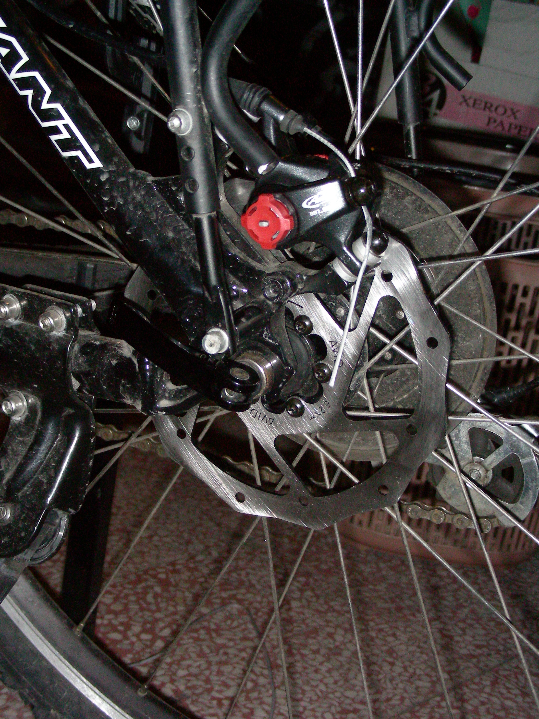 AVID BB 7 mechanical disc brake caliper and rotor in GIANT AS-845 YUKON Disc